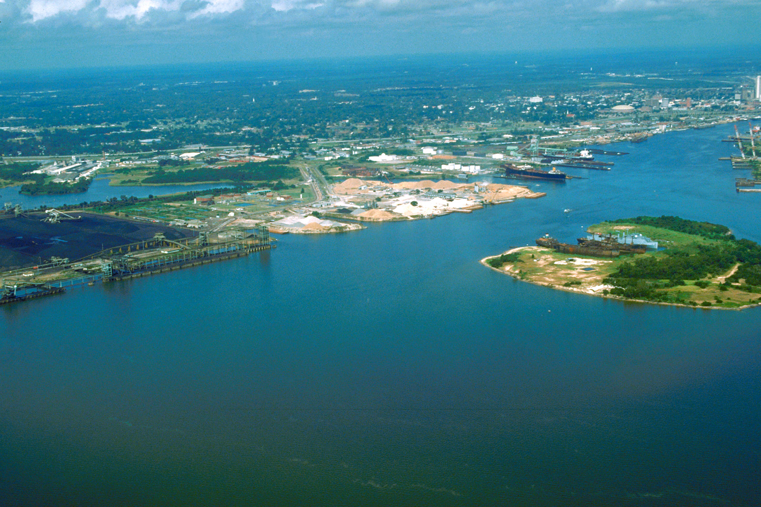 Aerial view of the port and city of Mobile, Alabama, USA. The view is from the harbor on Mobile Bay to the northwest over the central area of the city.